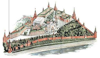 Overview map of the Moscow Kremlin. Location of Vodovzvodnaya Tower marked.